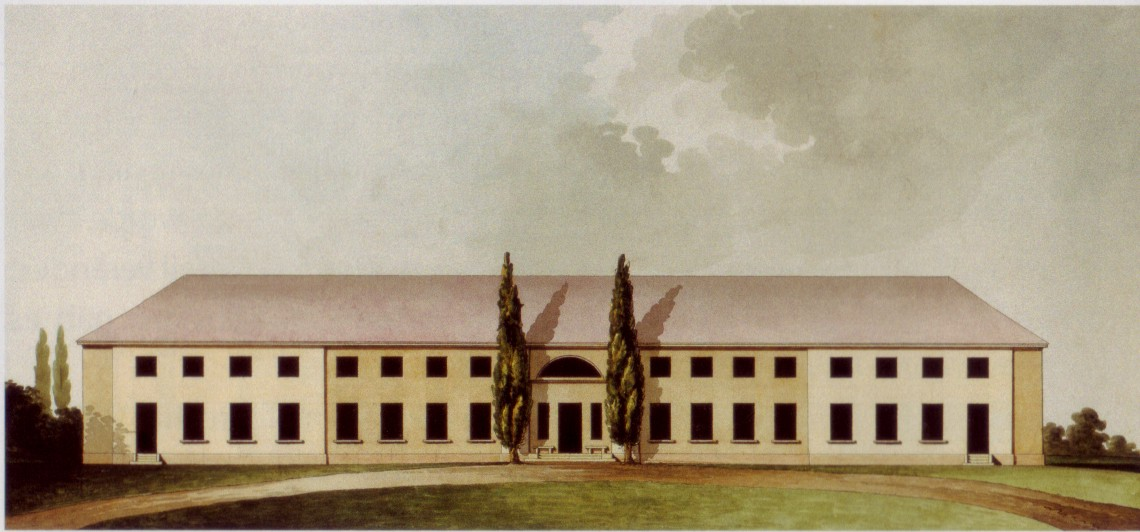 Illustration from the "Paretzer Skizzenbuch" (sketchbook). The palace in Paretz near Potsdam, Germany. Front side.